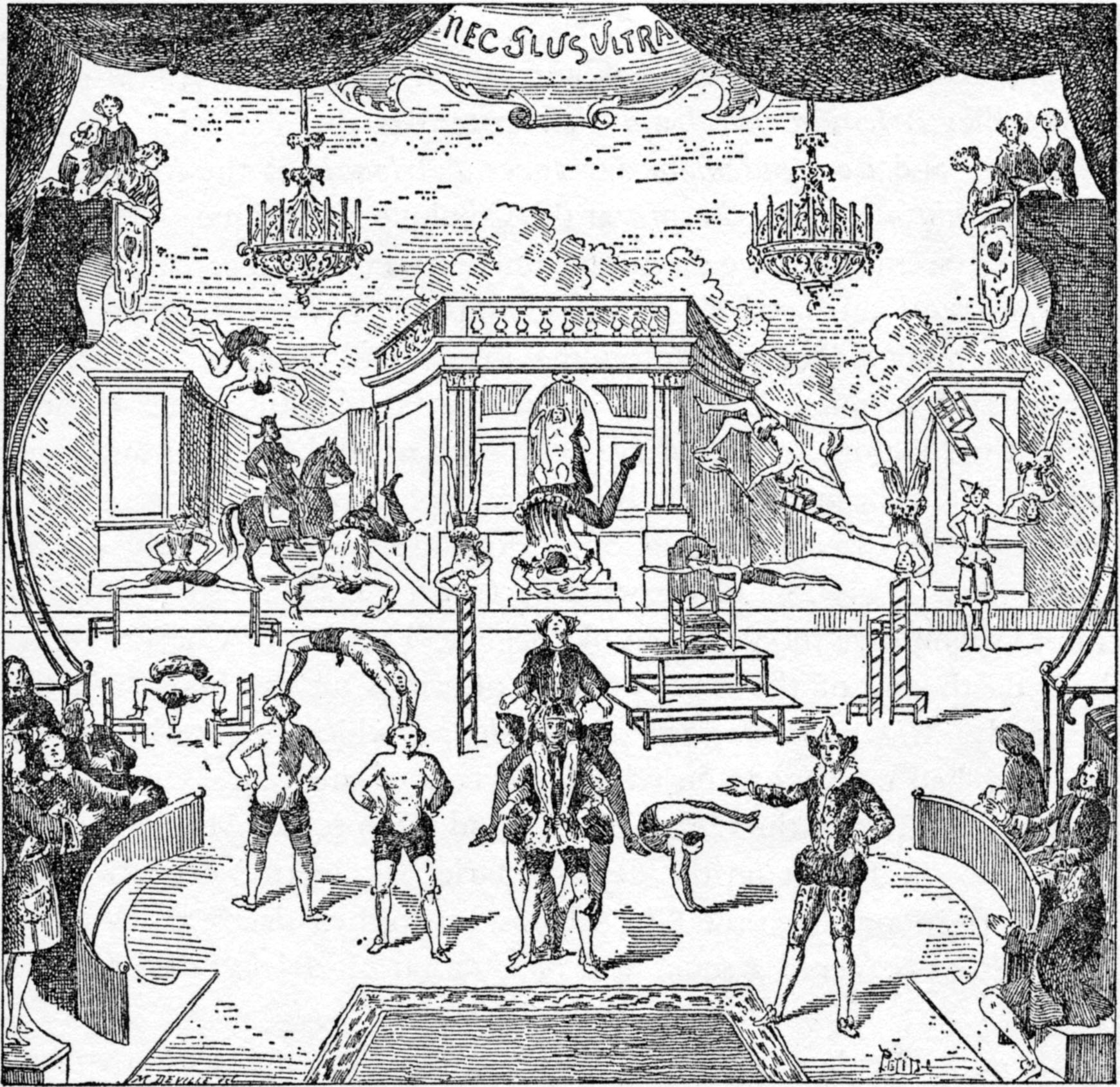 An entr'acte at Nicolet's theatre (date not specified).